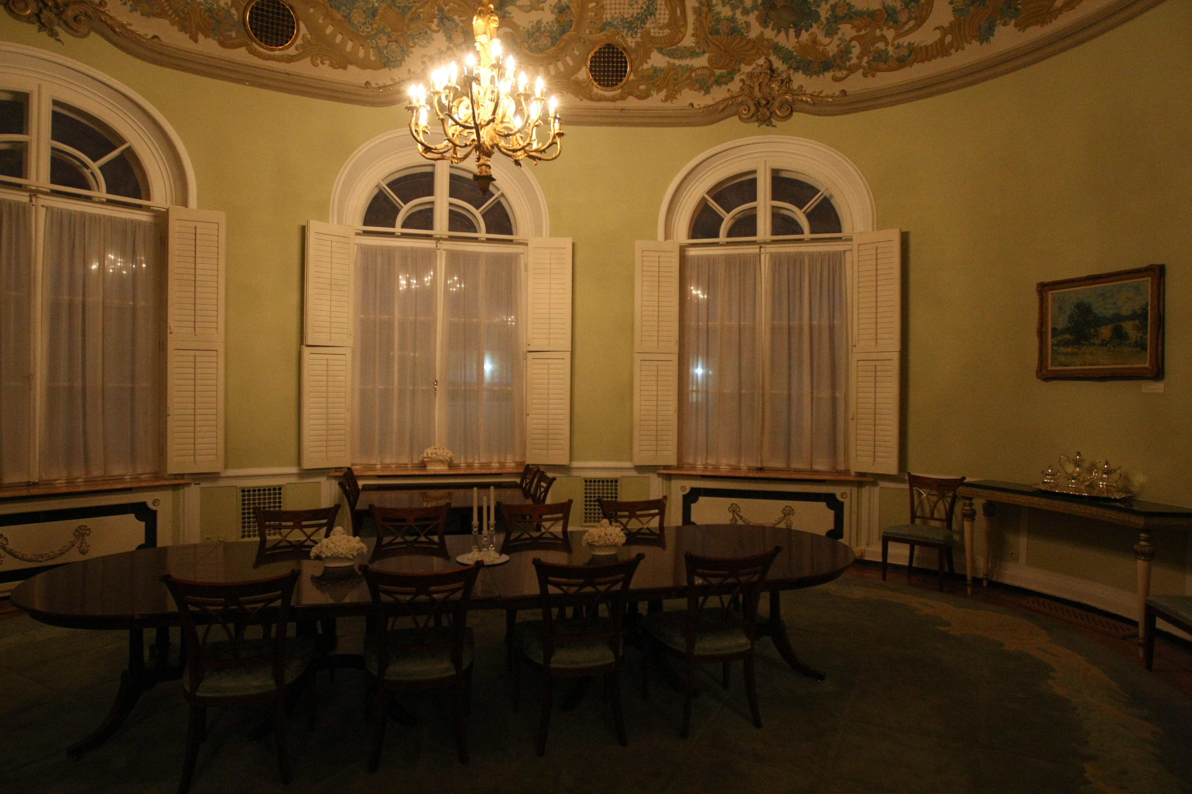 Dining Room of Spaso House, residence of U.S. Ambassador to Russian Federation in Moscow